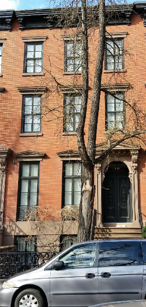 Exterior of 12 St. Luke's Place, Greenwich Village, New York City, on March 28, 2016